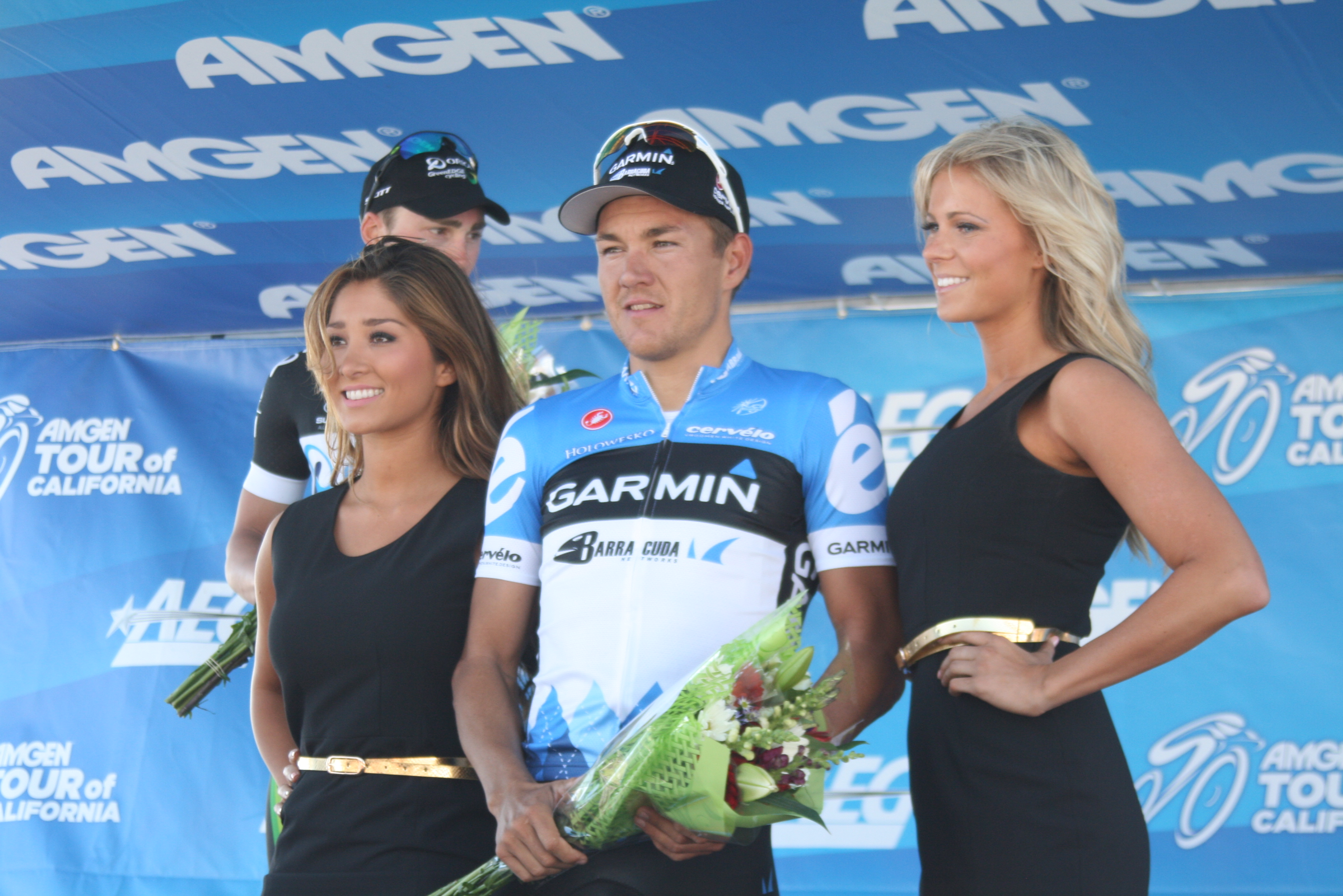 THESE PHOTOS ARE FREE FOR YOU TO USE BUT YOU MUST ATTRIBUTE TO RICHARD MASONER AND EITHER LINK (if used in online media) OR MENTION (for print media) Thanks for looking!